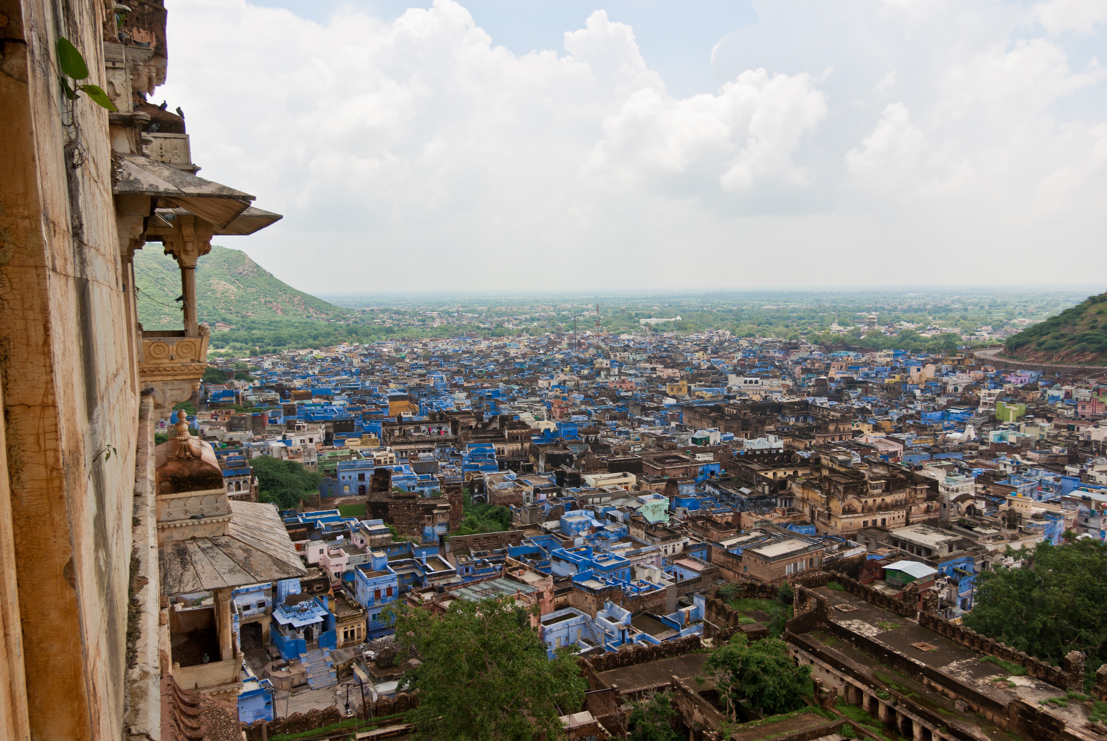 Bundi (from Bundi Palace)